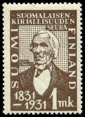 Postage stamp celebrating 100 years of the Finnish Literature Society and depicting Elias Lönnrot, the Finnish philologist and compiler of Kalevala